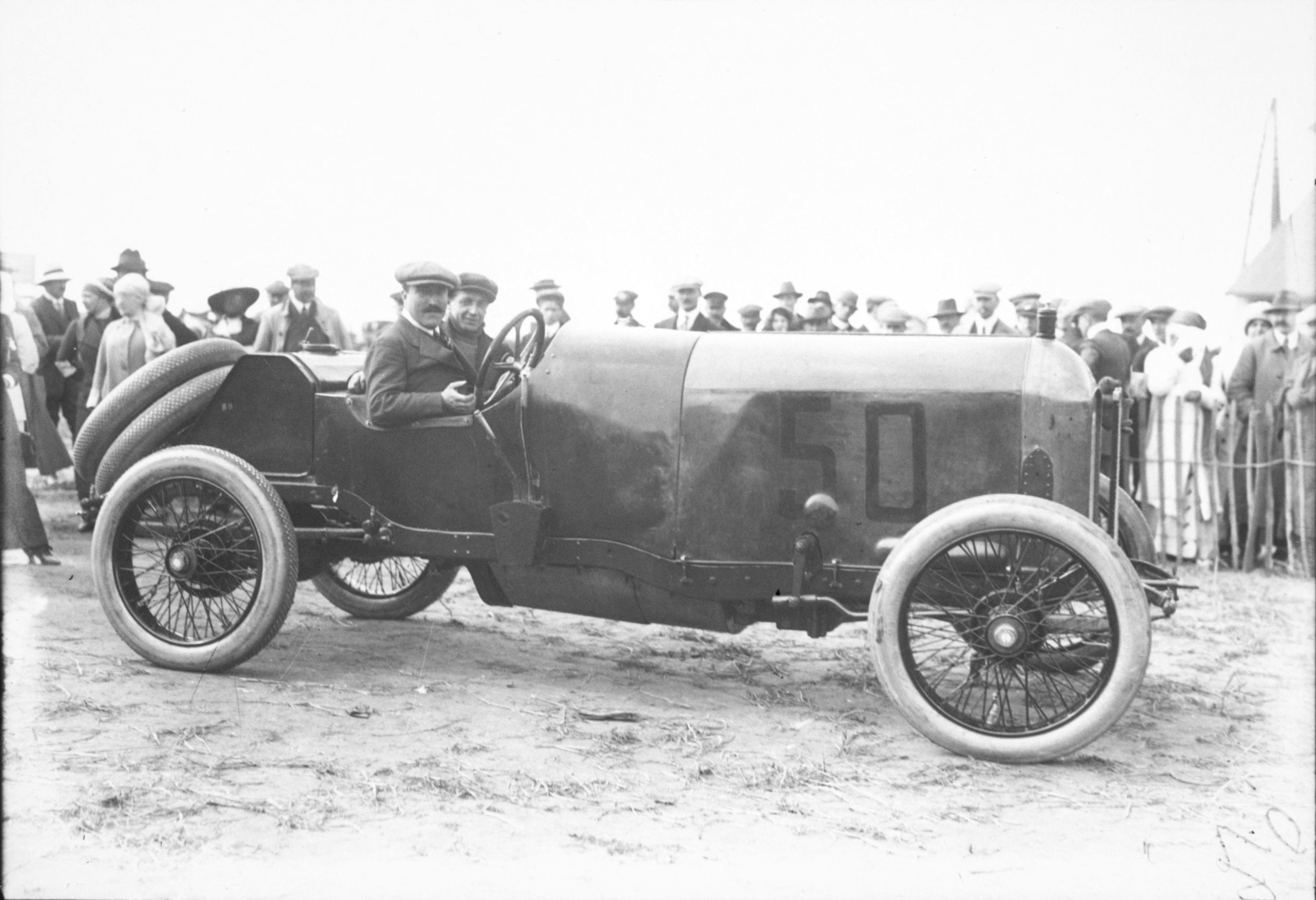 Josef Christiaens in his Excelsior at the 1912 French Grand Prix at Dieppe.